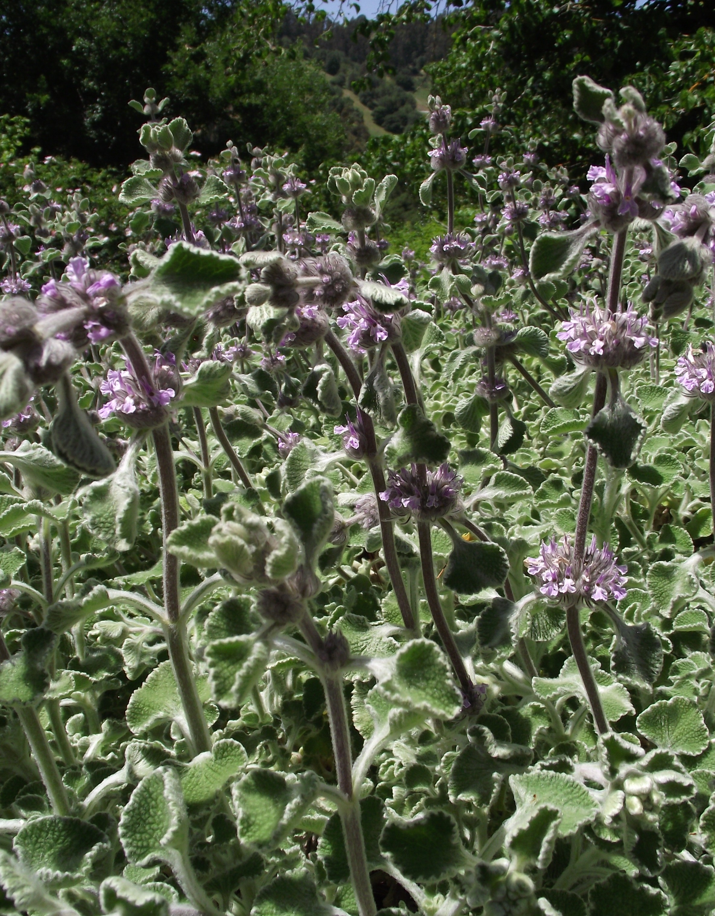 Marrubium supinum in the UC Botanical Garden, Berkeley, California, USA. Identified by sign.